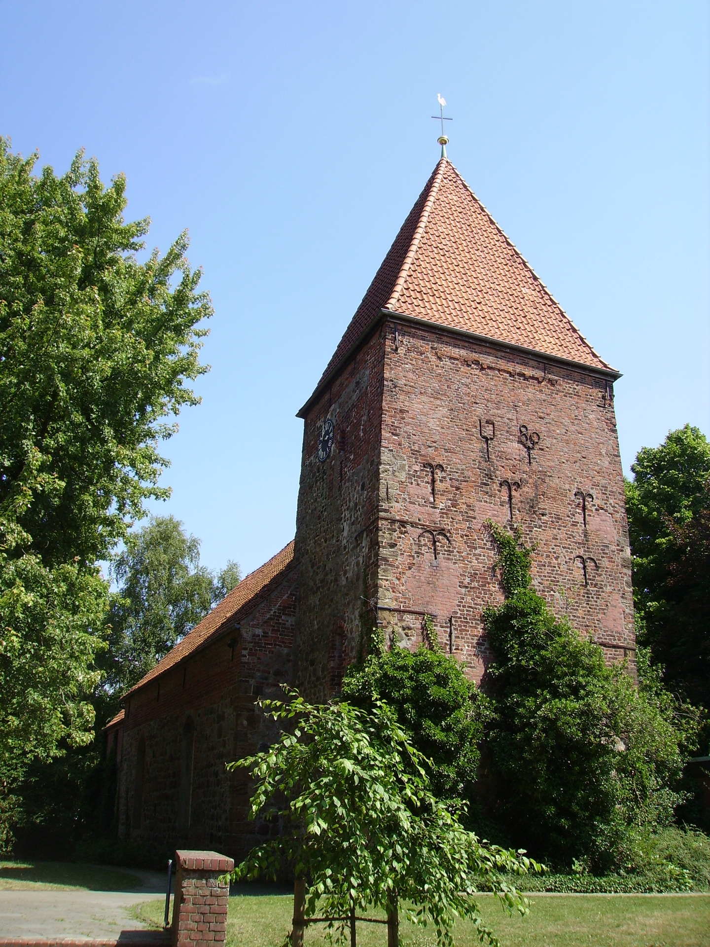 The Dionysius Church in Bremerhaven-Wulsdorf